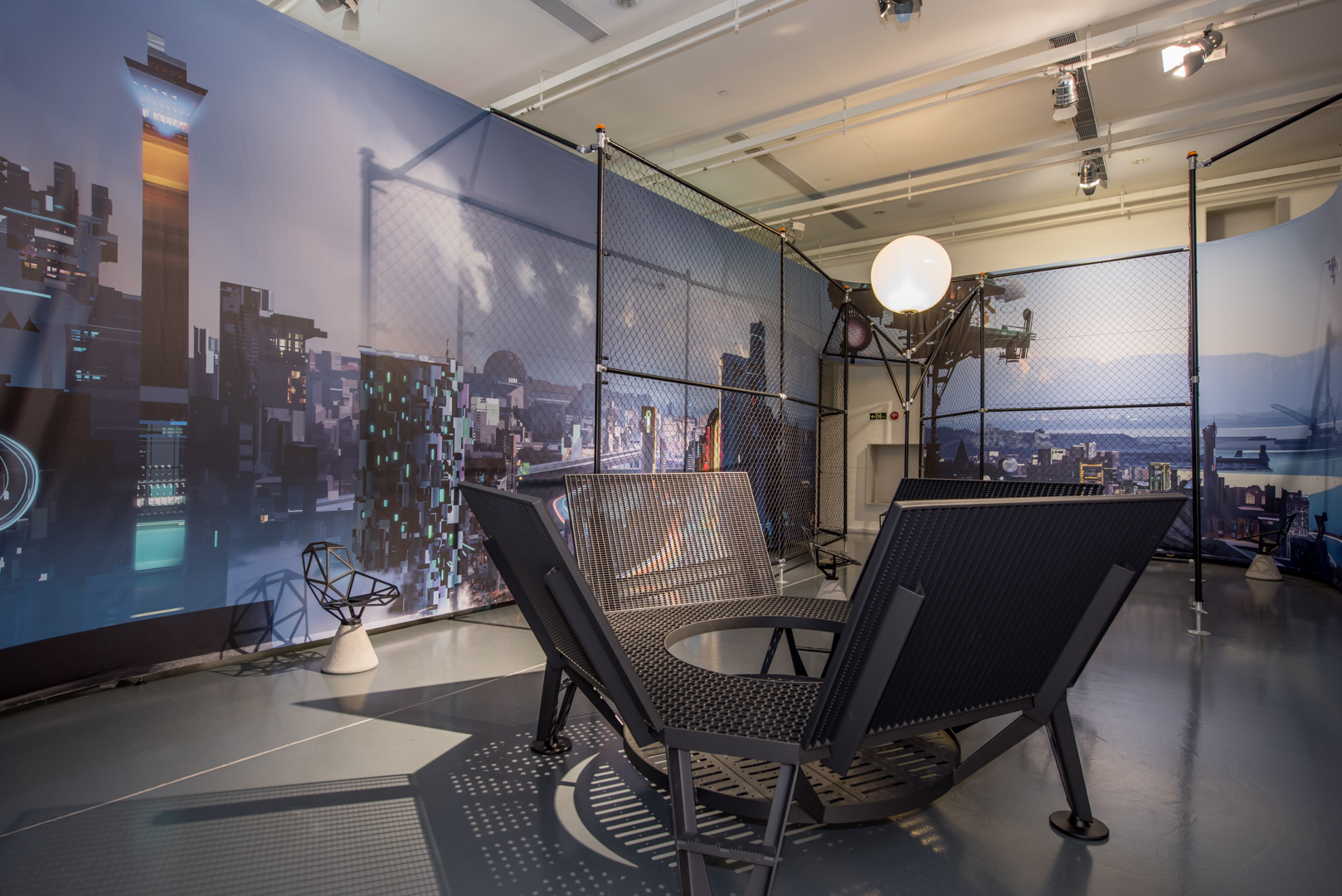 Konstantin Grcic – Panorama Exhibition held at HKDI Gallery